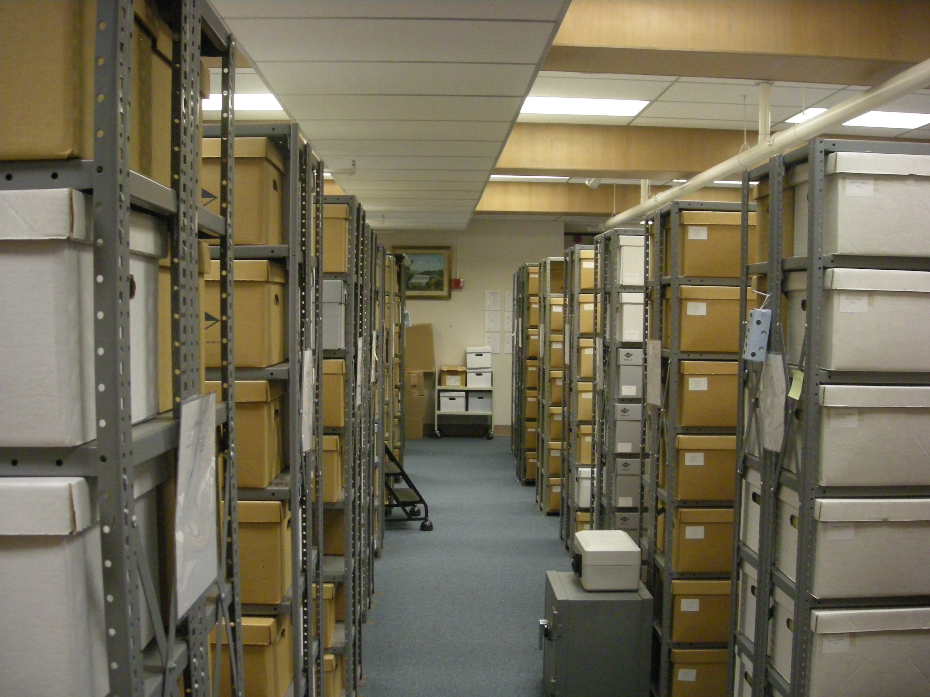 The stacks of the Carl Albert Center on the campus of the University of Oklahoma in Norman, Oklahoma (United States).